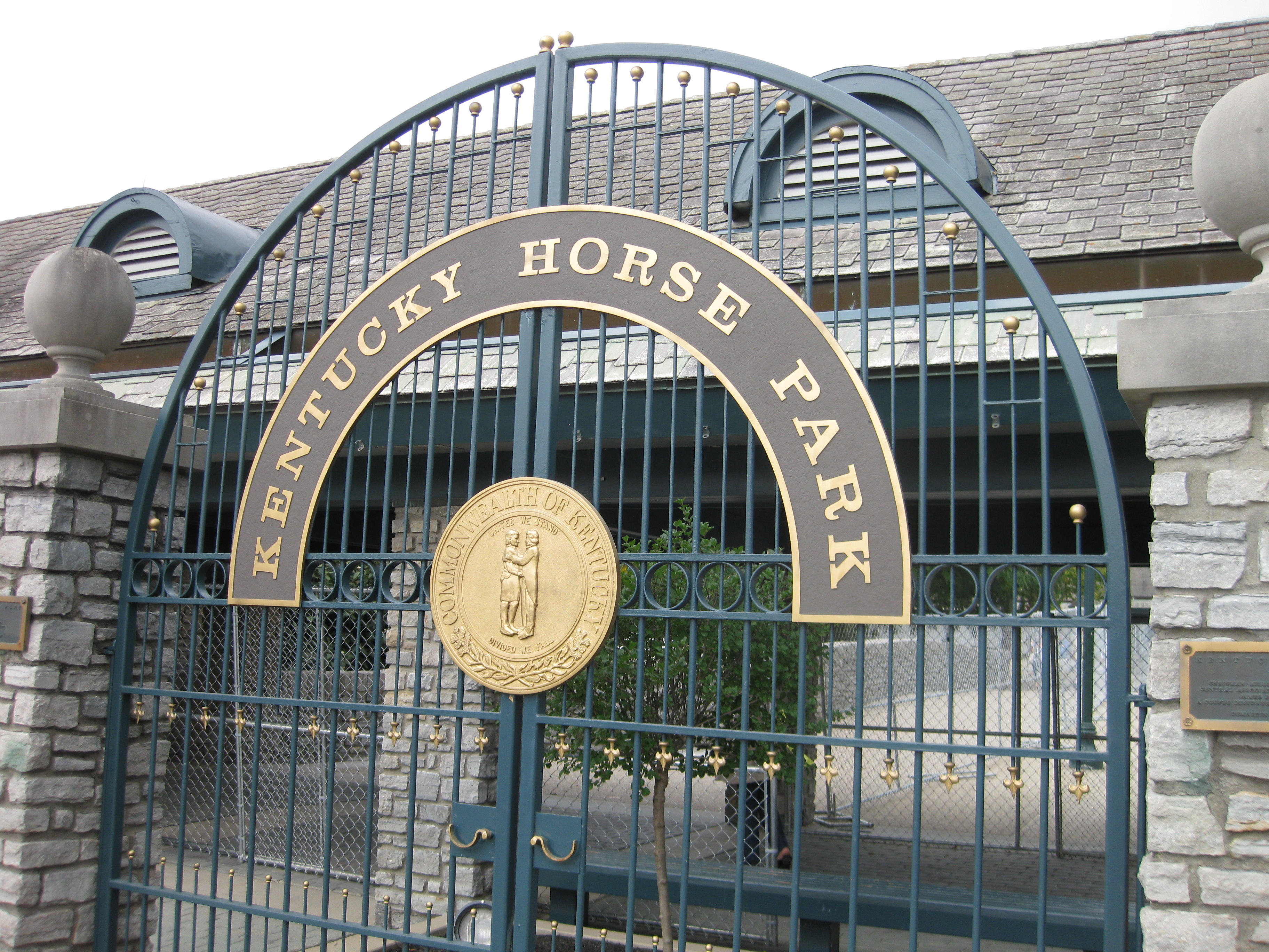 A Gate at Kentucky Horse Park, Lexington, KY, USA